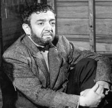 Nathán Pinzón- actor argentino.